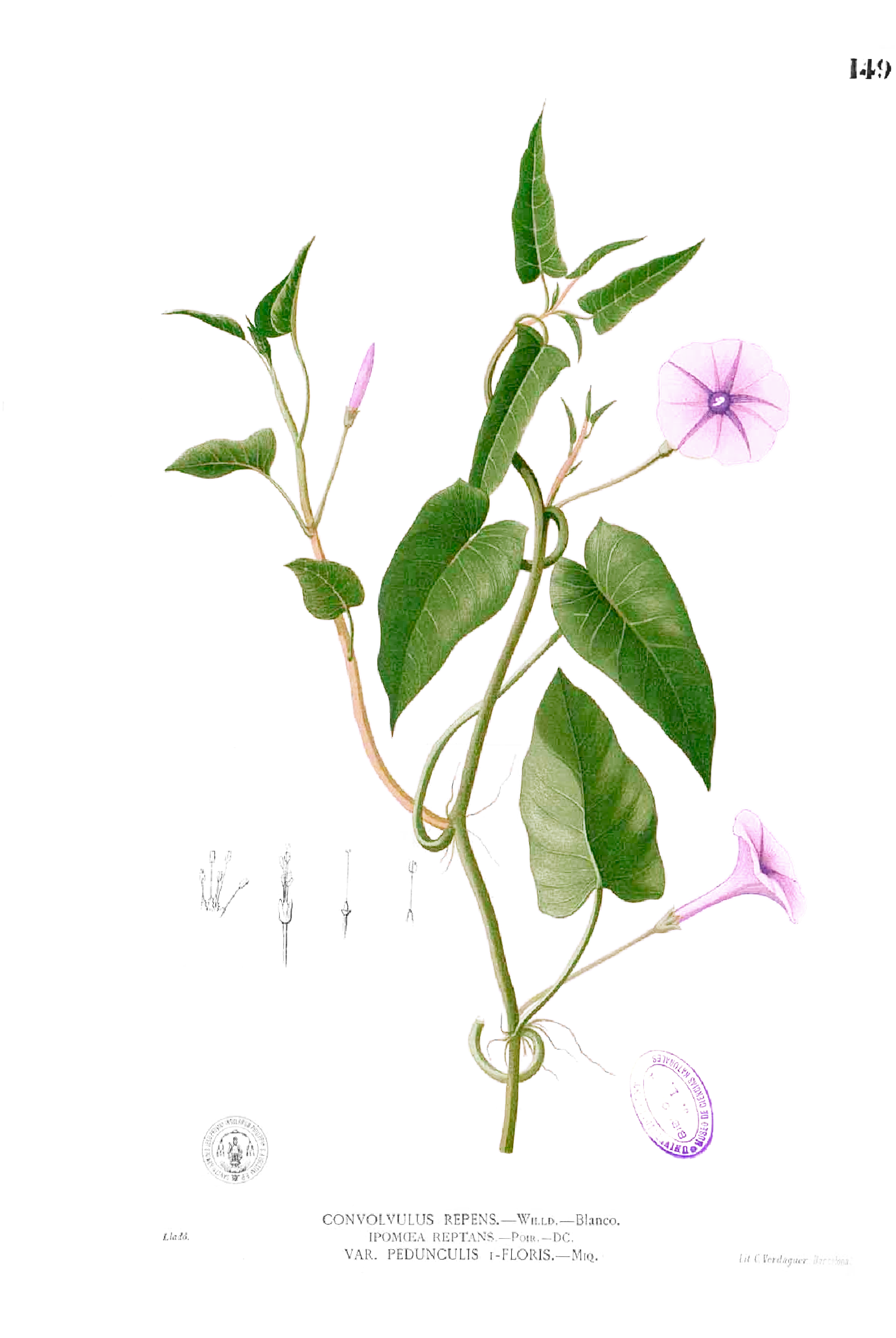 Plate from book Ipomoea aquatica